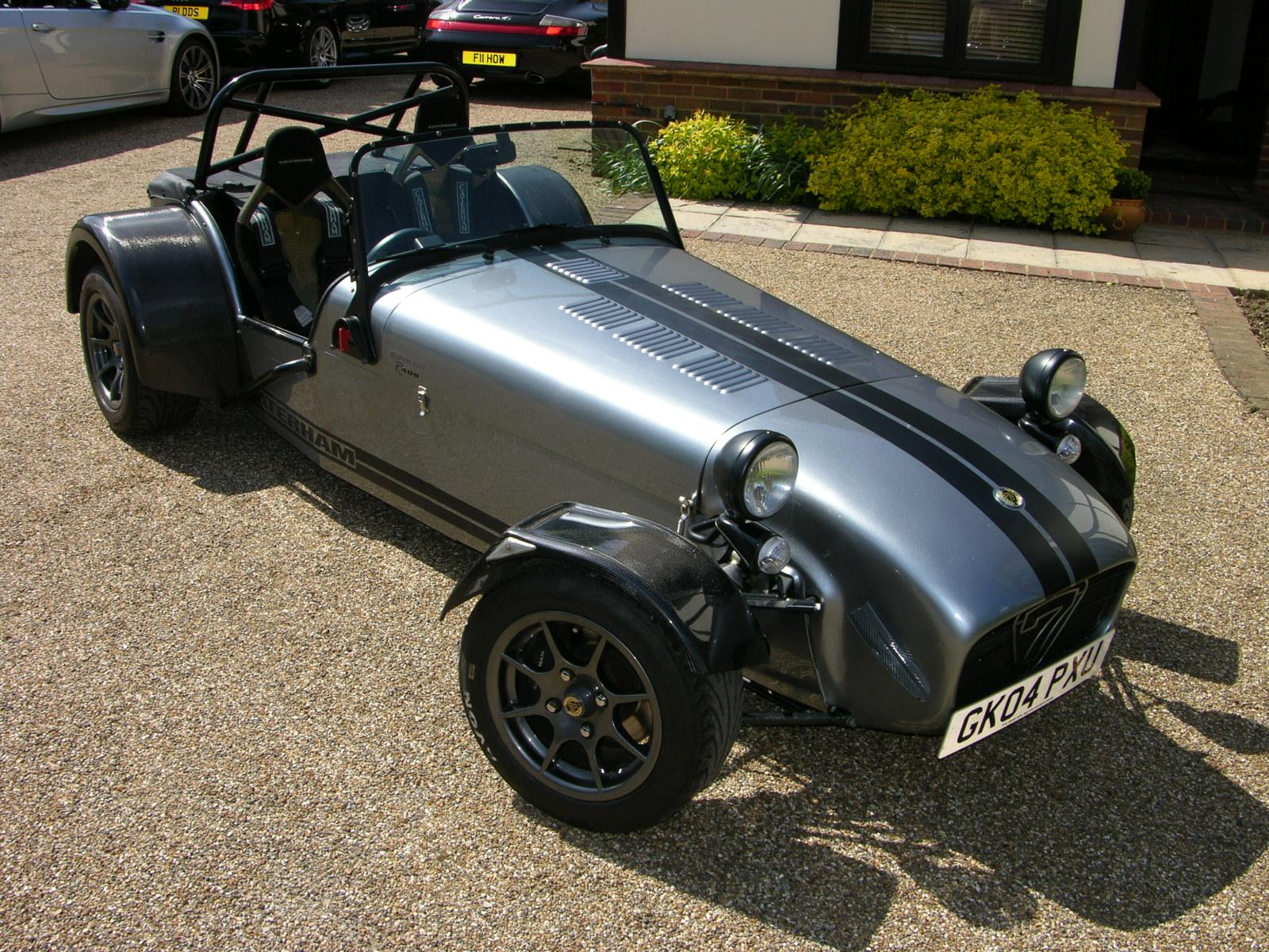 2004 Caterham R400 Superlight SV